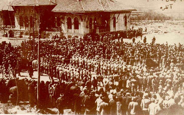 Opening of the Grand National Assembly on 23 April 1920.